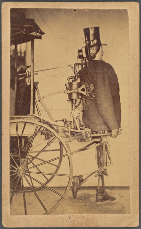 This is a photograph of the Steam Man, a steam powered vehicle invented by American inventors Zadoc P. Dederick and Isaac Grass.